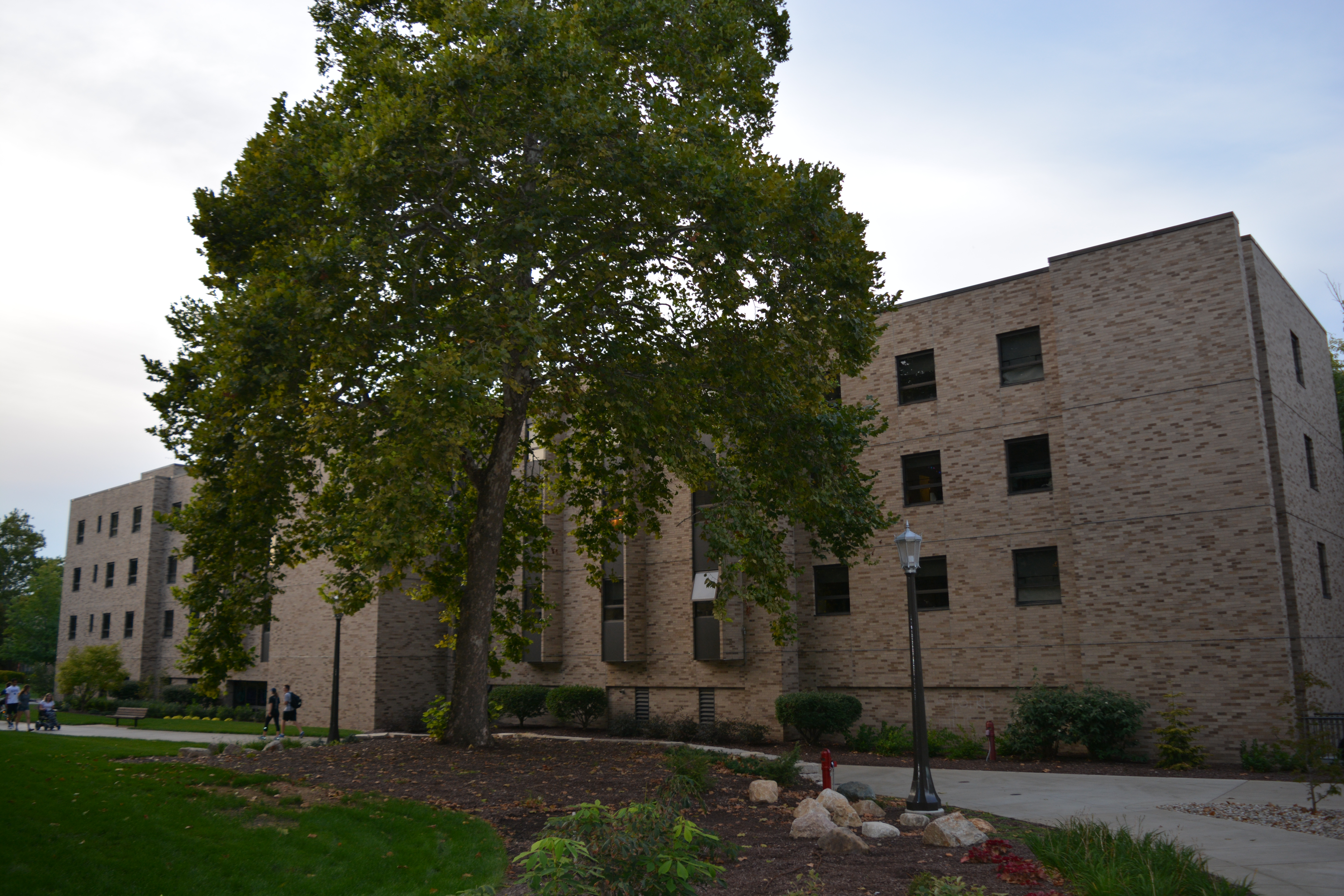 University of Notre Dame